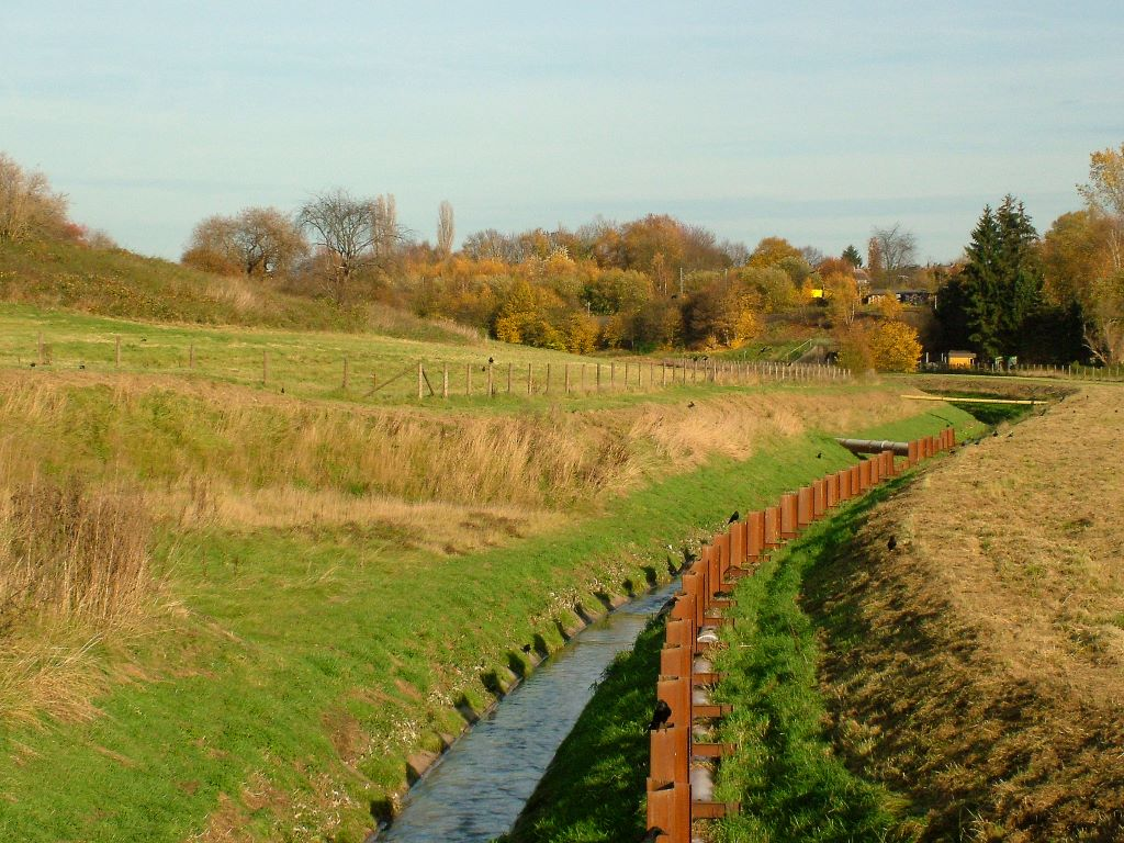 The Ruepingsbach creek in Dortmund-Barop, Germany